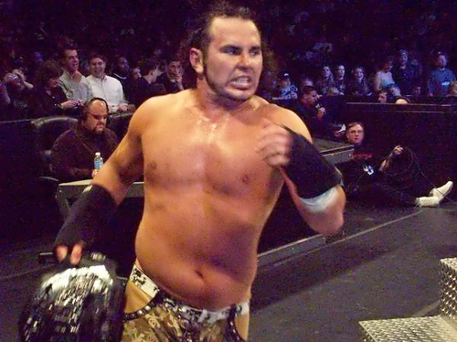 Matt Hardy Runs Away With The ECW Title